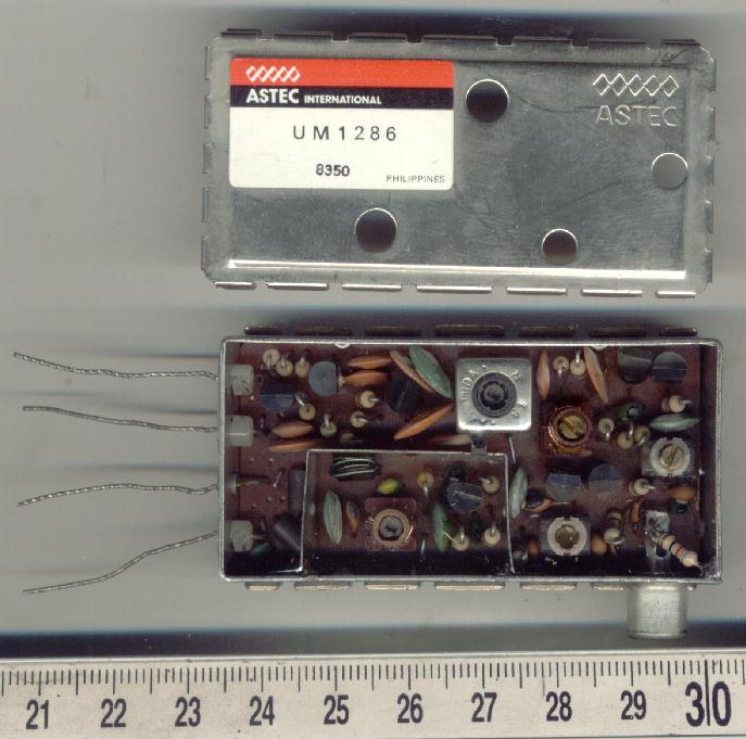 UHF modulator by ASTEC International.